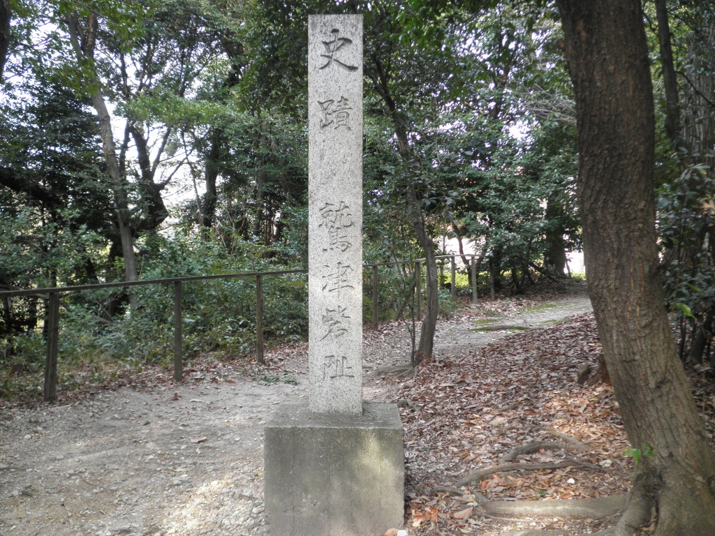 The Monument of Washizu Fort Site in Aichi Pref.,Japan.